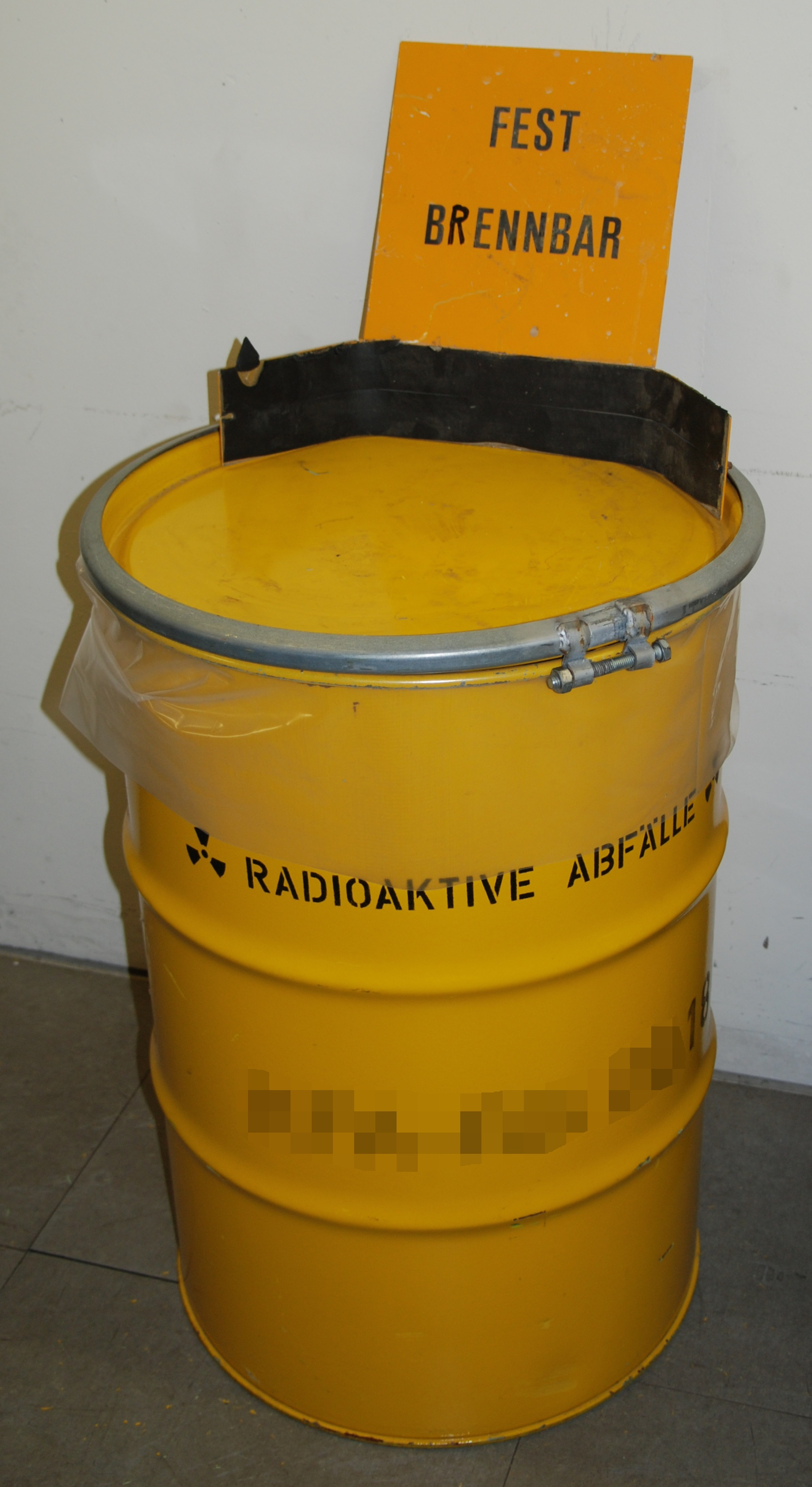 yellow barrel of radioactive waste